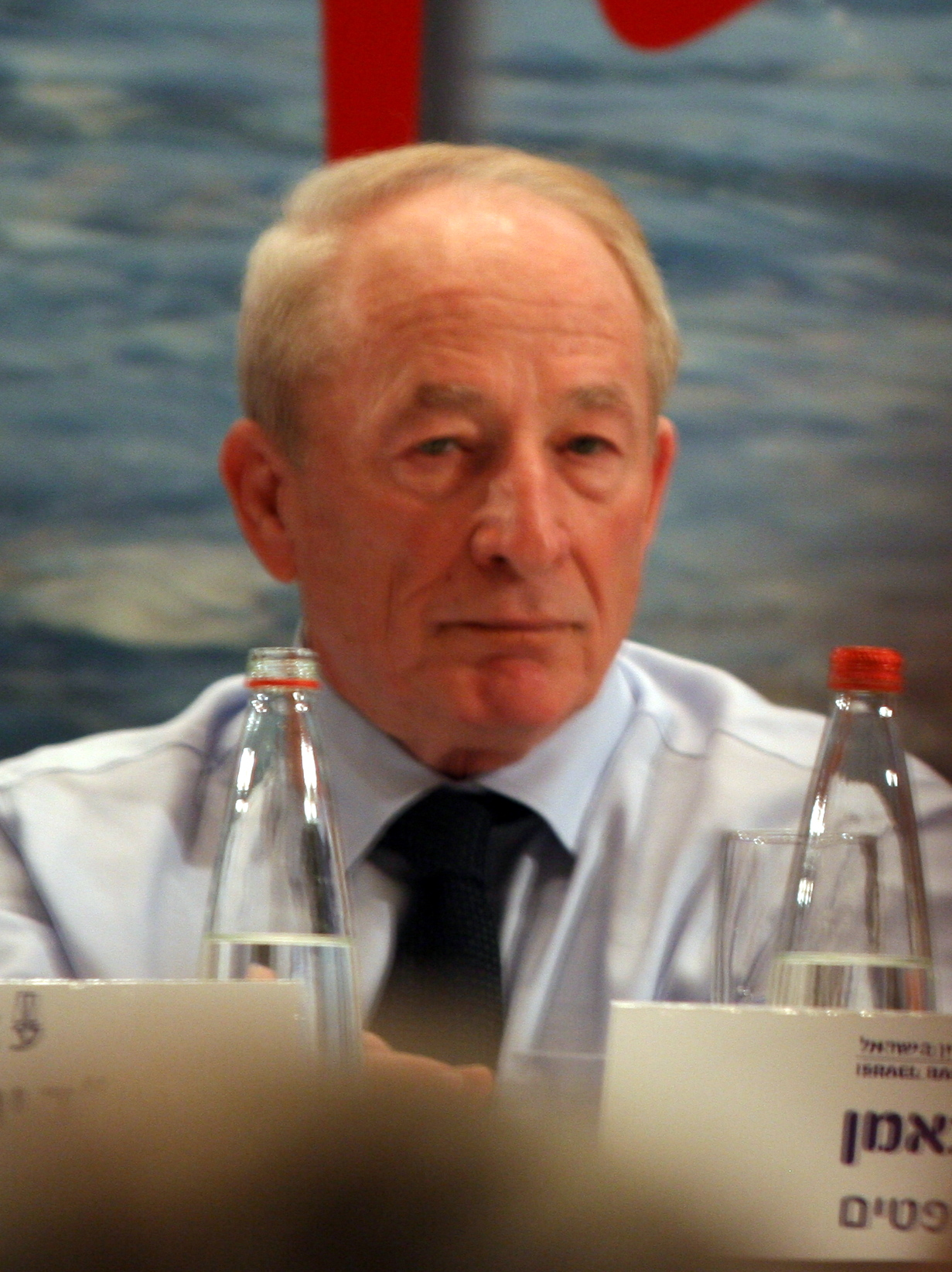 Yehuda Weinstein (Hebrew: יהודה וינשטיין; born 1944) is an Israeli lawyer and the Attorney General of Israel, having replaced the previous attorney general, Menachem Mazuz, on 1 February 2010.